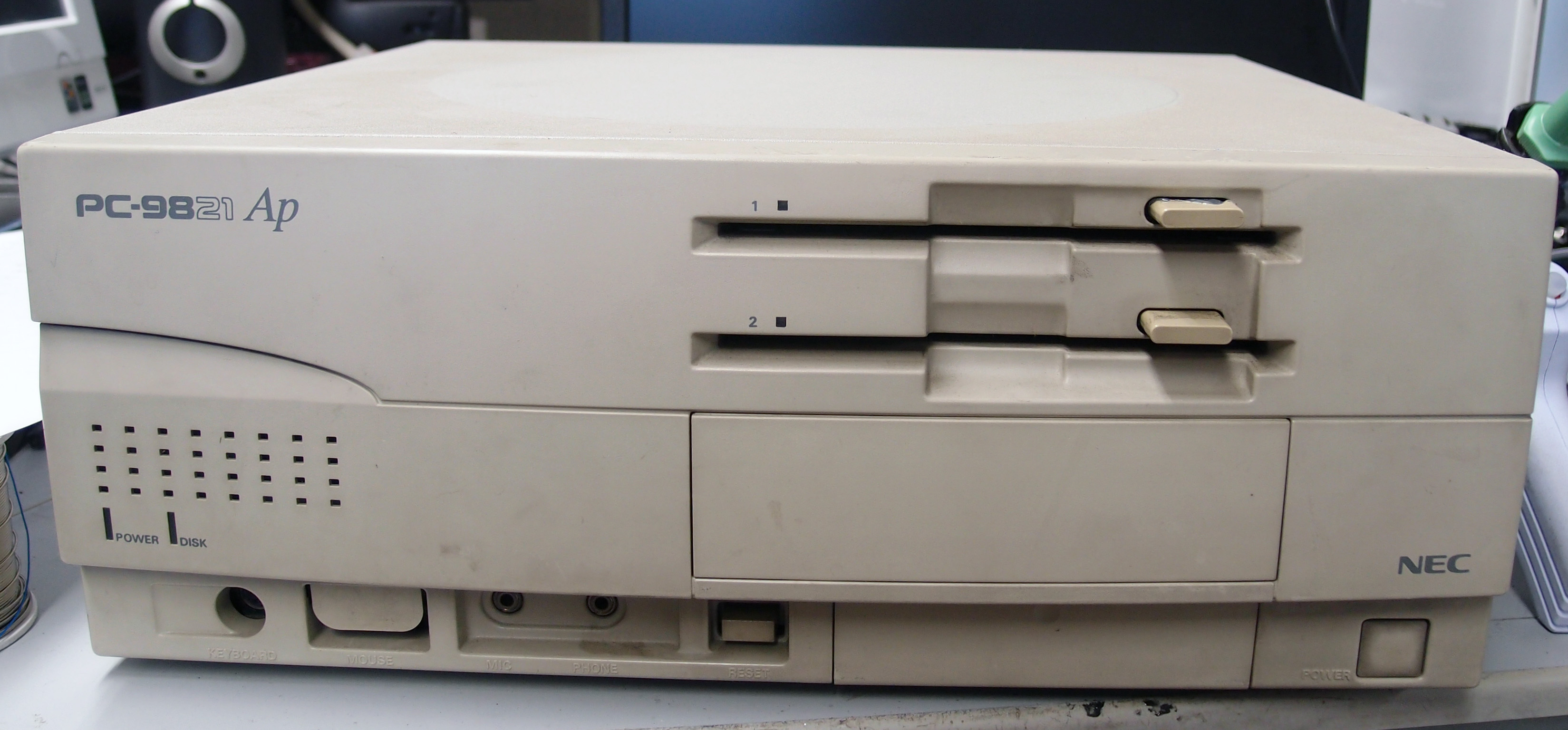 NEC PC-9821Ap 5-inch FDD model (1993)